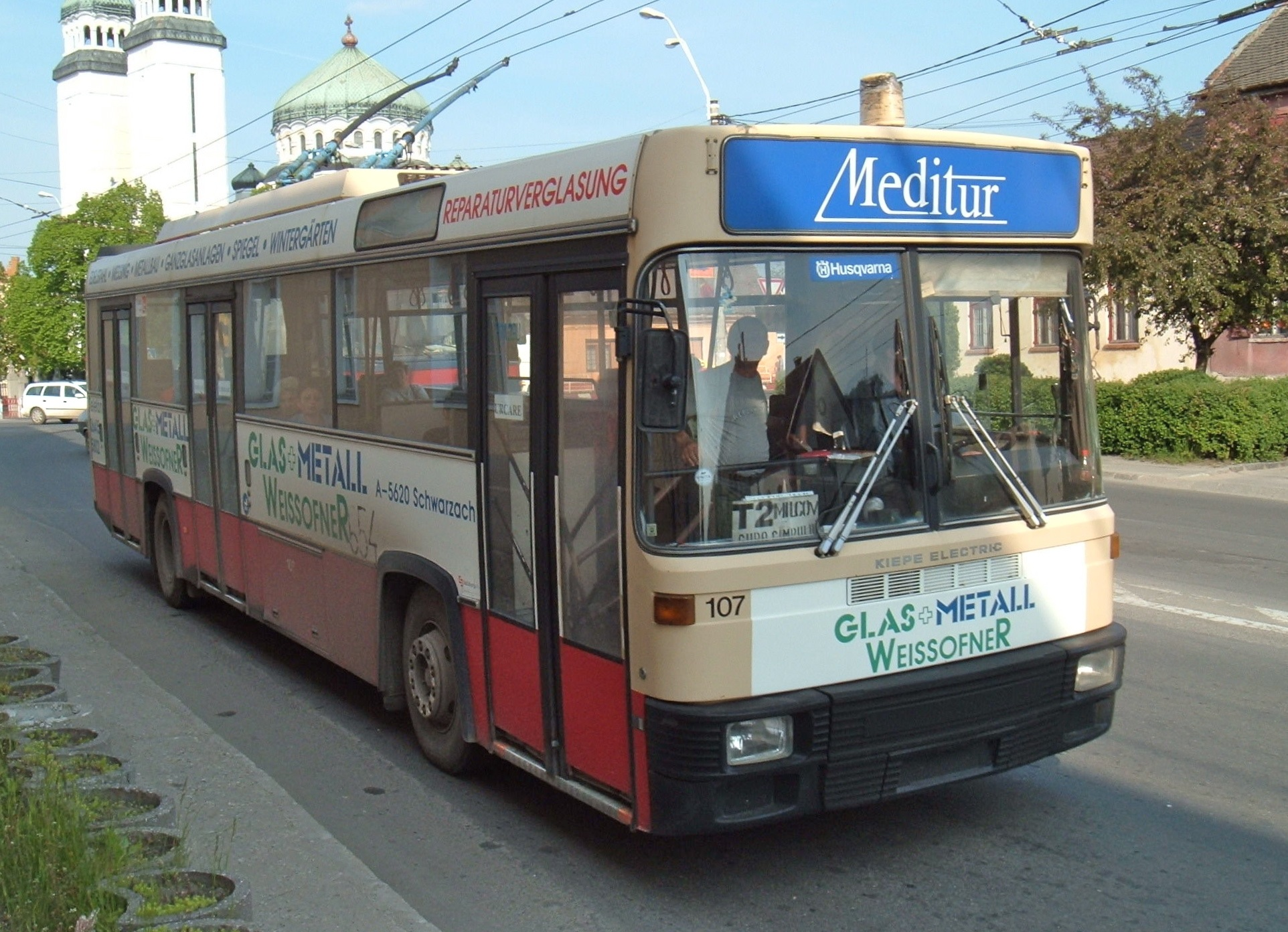 Trolleybus 654 in Mediaş, Romania, is ex-Salzburg, Austria trolleybus 107. It was built in 1988 by the Austrian manufacturer Steyr Bus GmbH and fitted with Kiepe electrical equipment. After being withdrawn from service in Salzburg in 2001, it was acquired by Mediaş in 2002. It is shown in service on Mediaş route T2. Its main front sign has been altered to show the name of the Mediaş transport system operator, Meditur, but its lower front and sides still wear advertisements left from its last period of use in Salzburg.